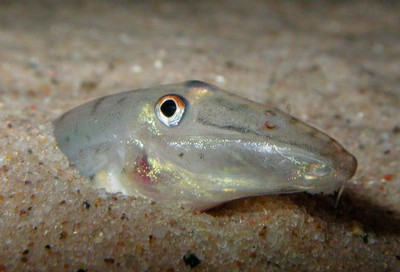 This picture shows an undetermined species of the genus Acantopsis.